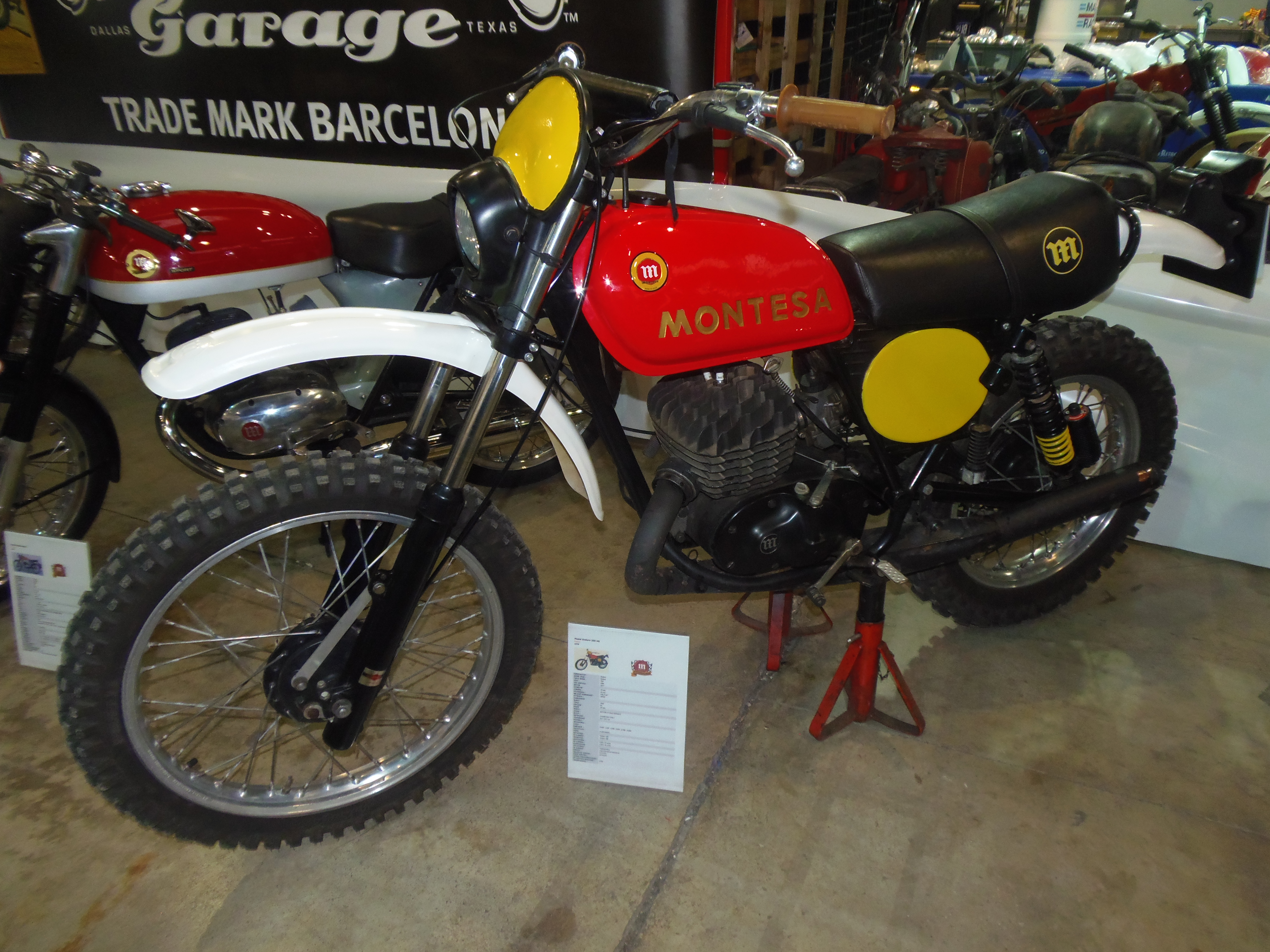 Montesa Enduro 250 H, 1976